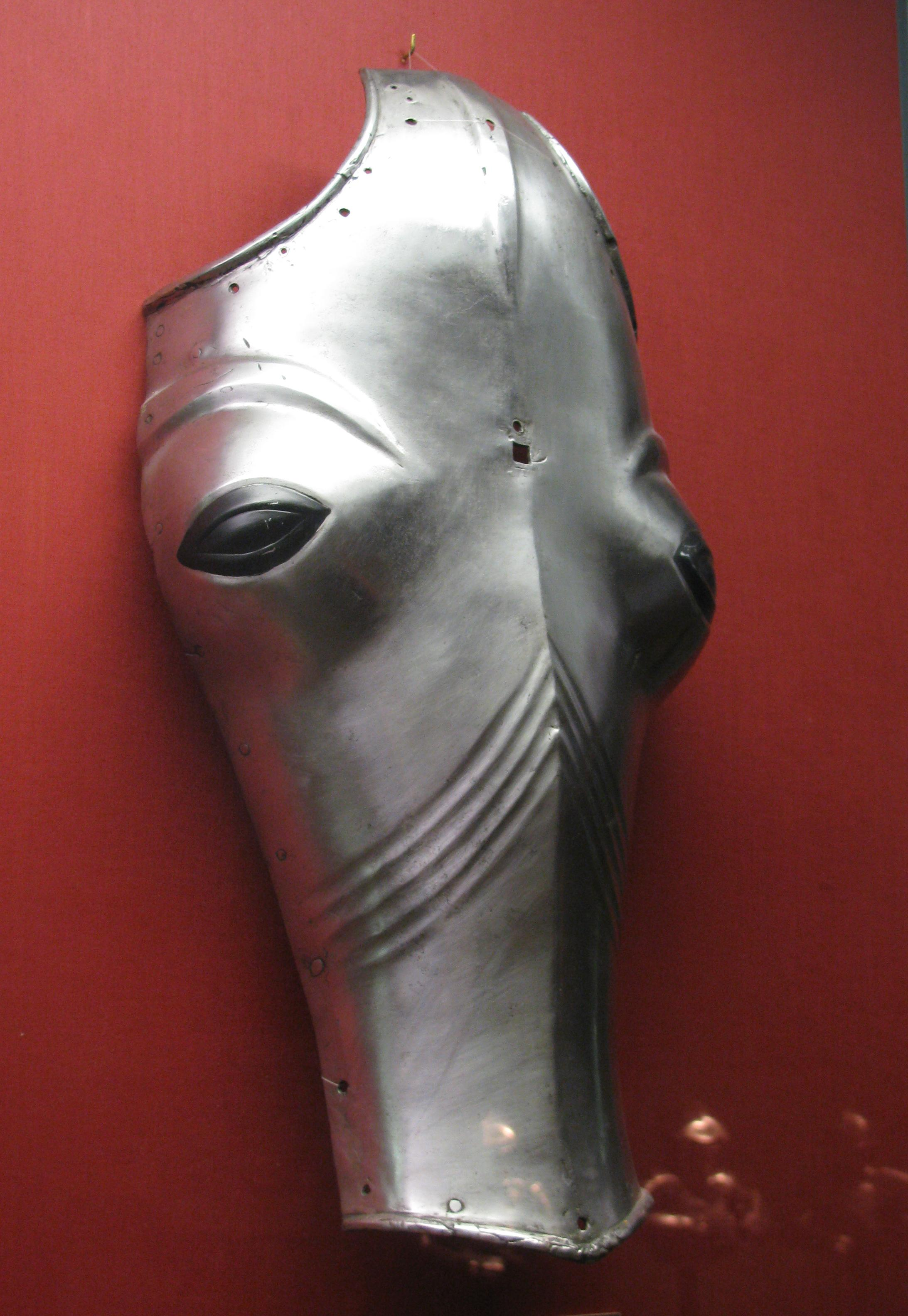 Blindet Armour for the horse's head in jousts